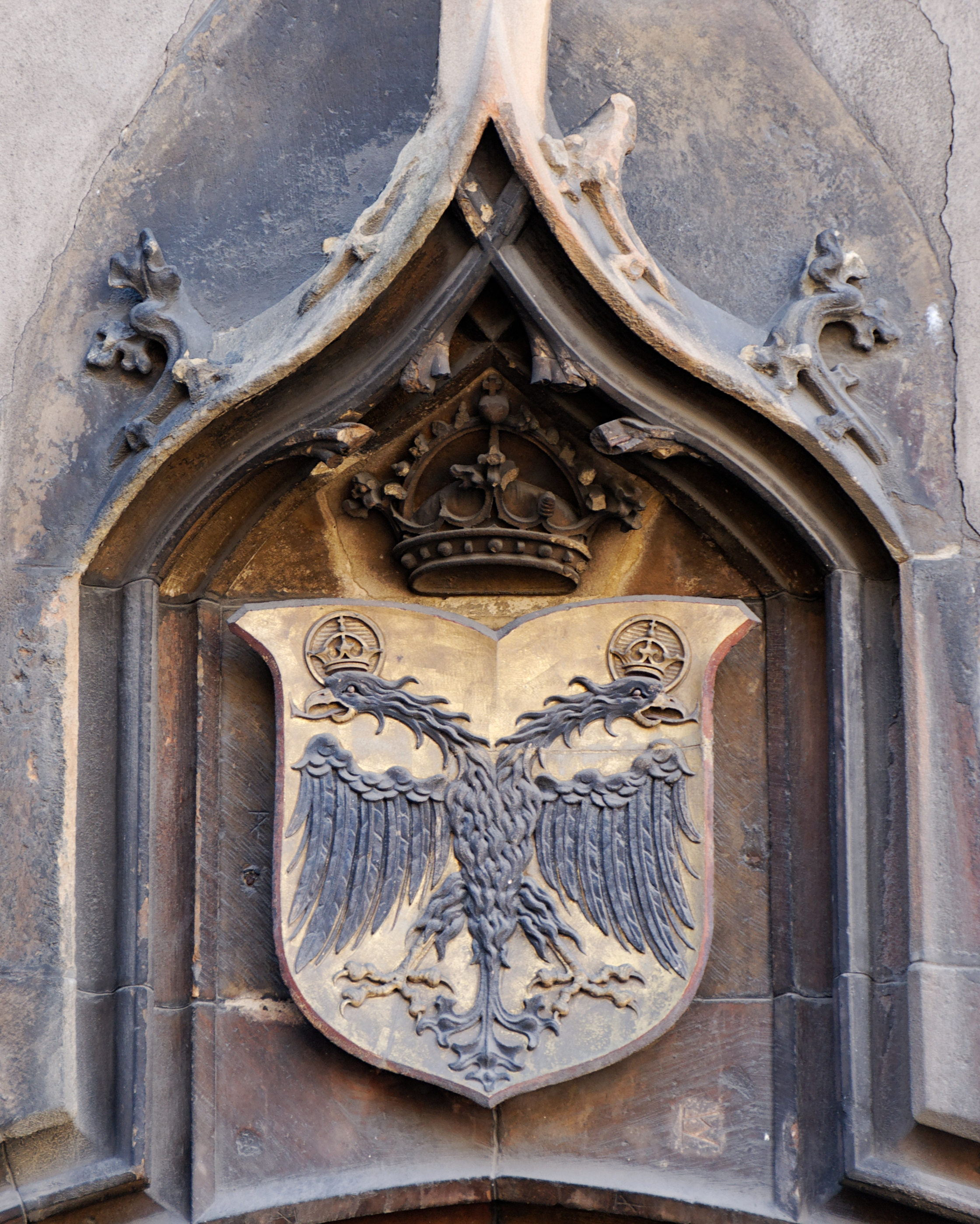 Coat of arms of the Holy Empire on the wall of the Koifhus (customs house) in Colmar, France.